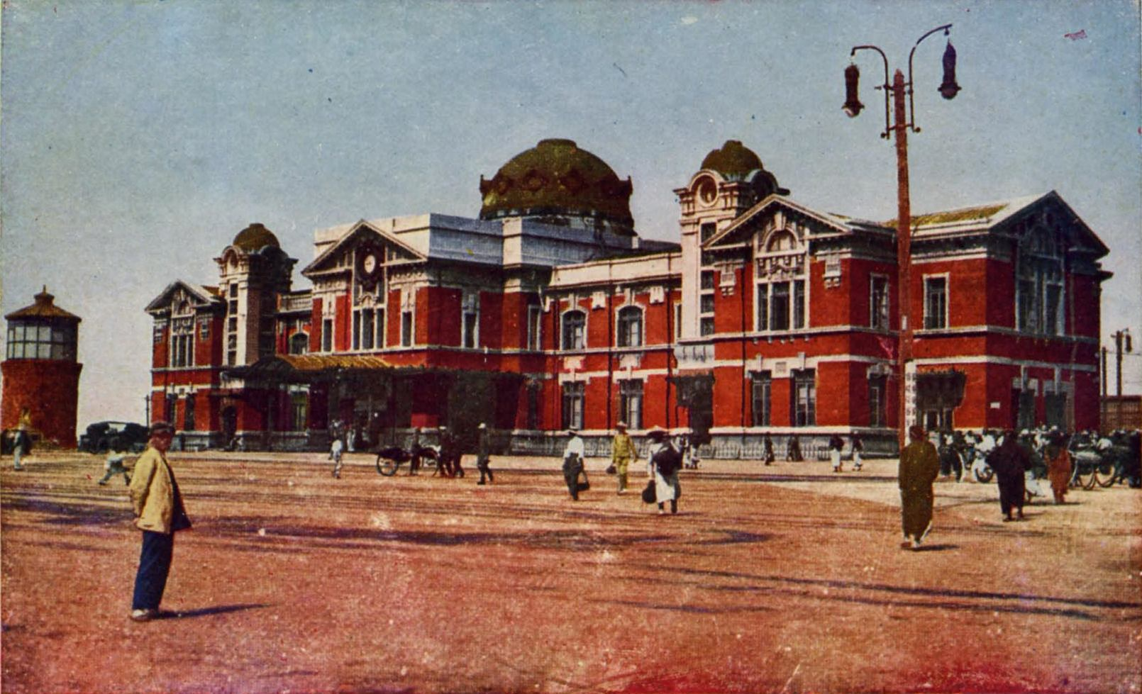 MUKDEN STATION.